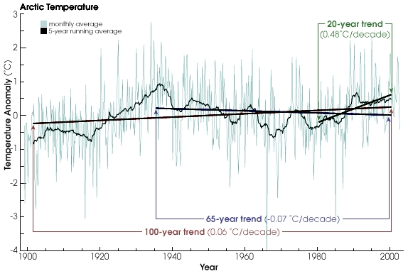 Arctic temperature over the 20th century, temperature anomaly and trends.